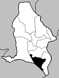 Location of Alfragide parish in Amadora municipality. Map created by Brian Boru in December 2005.